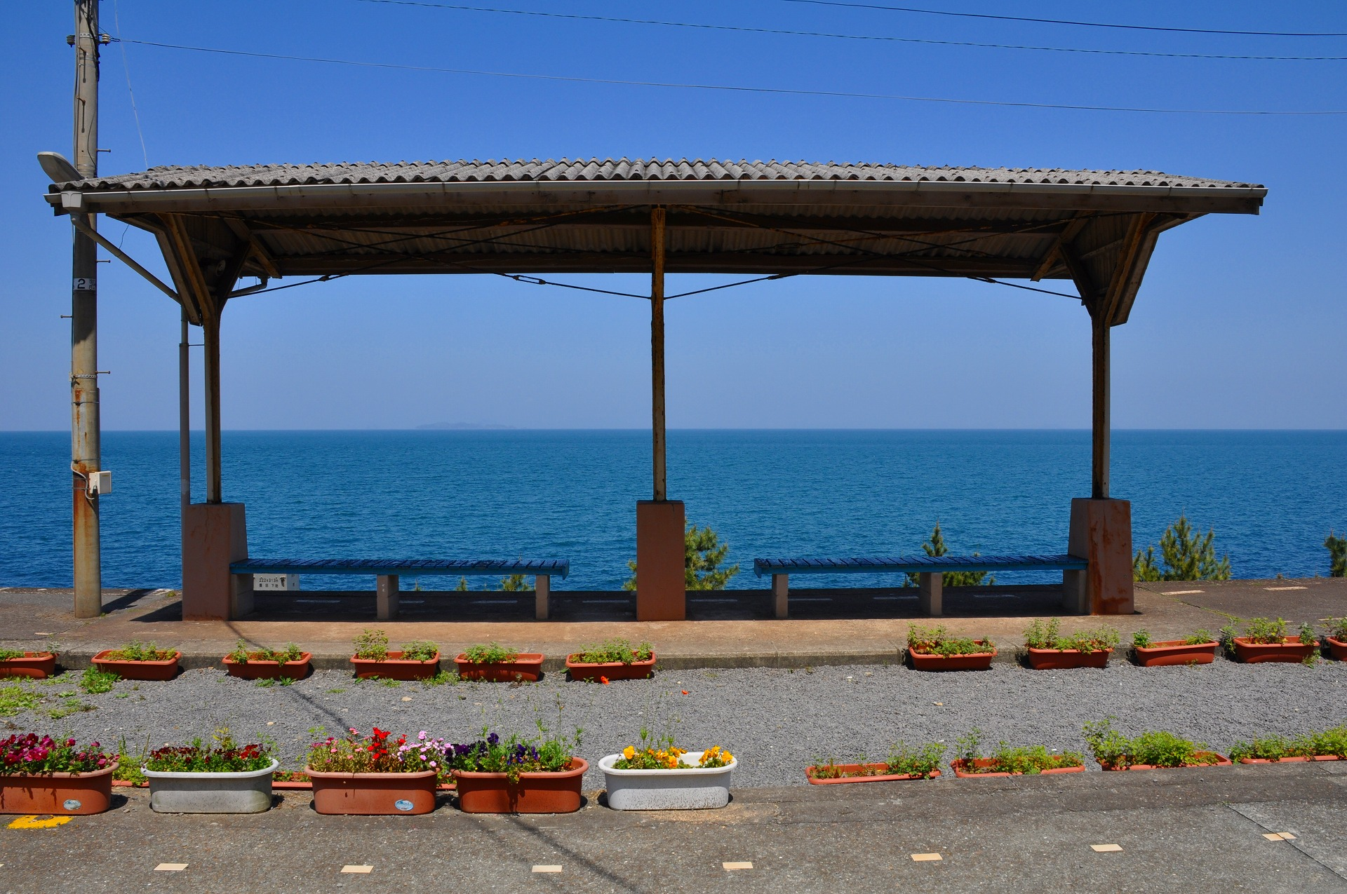 Shimonada station